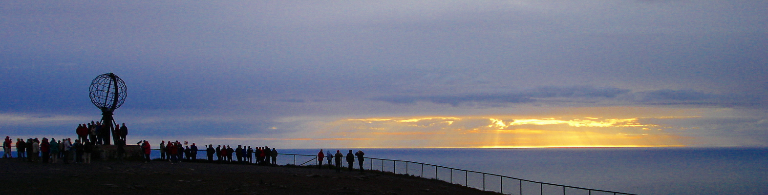 North Cape